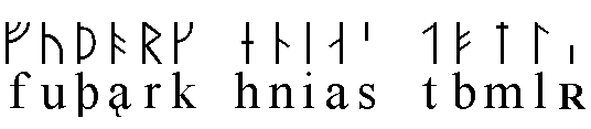 Swedish-Norwegian Futhork, short-twig runes. It seems to be the same as Image:Kortkvistrunor, svensknorska runor.png